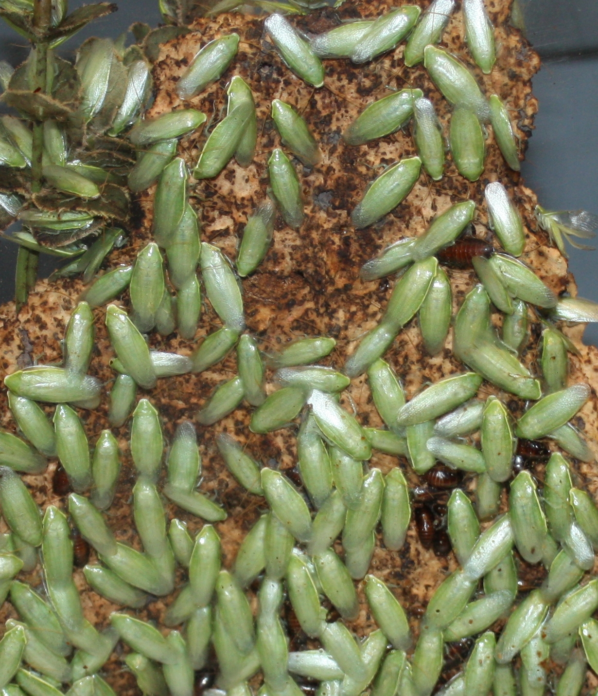 Green-leaf cockroach Panchlora nivea at Cincinnati Zoo